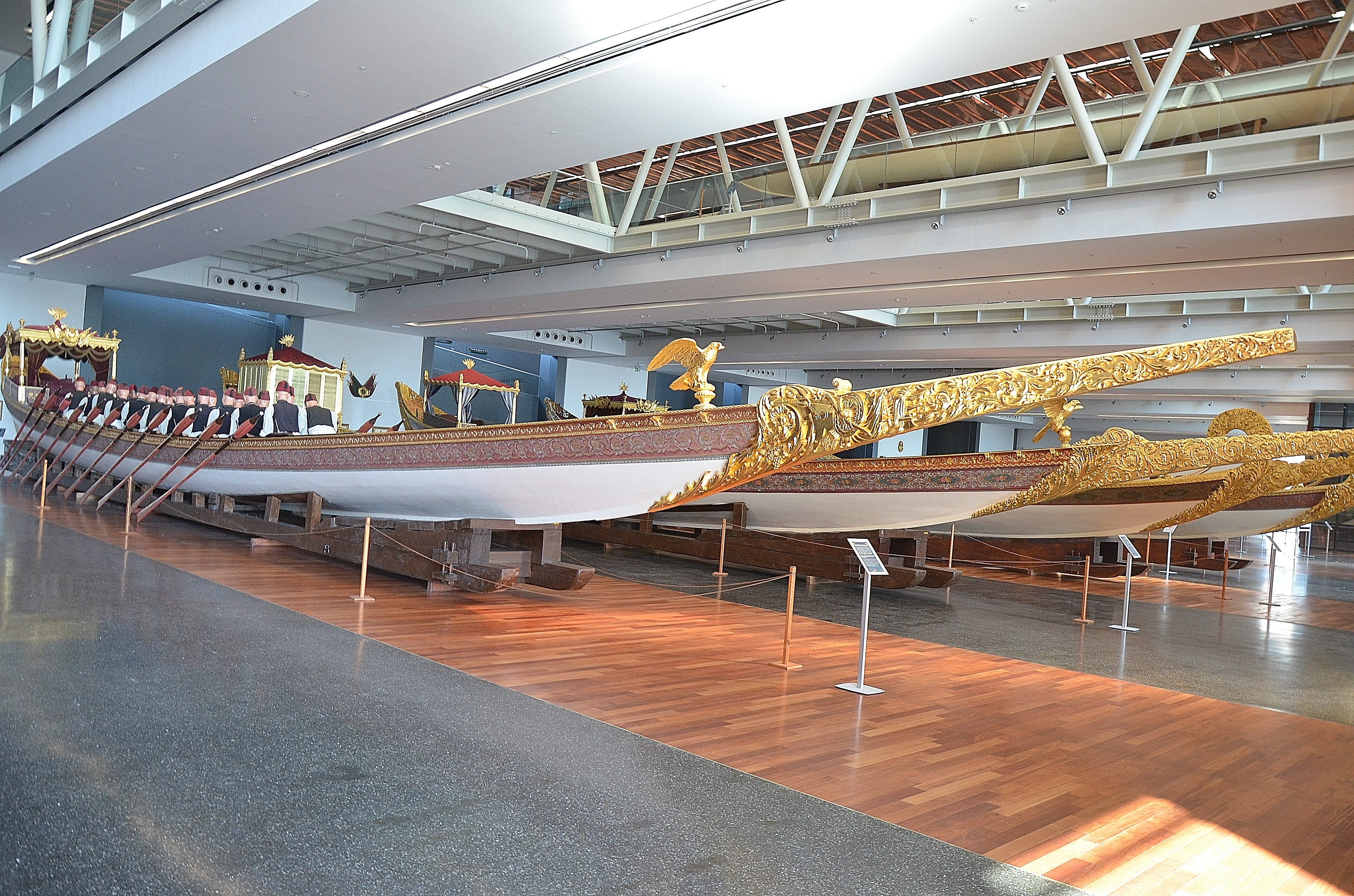 Imperial caïque in the Istanbul Naval Museum